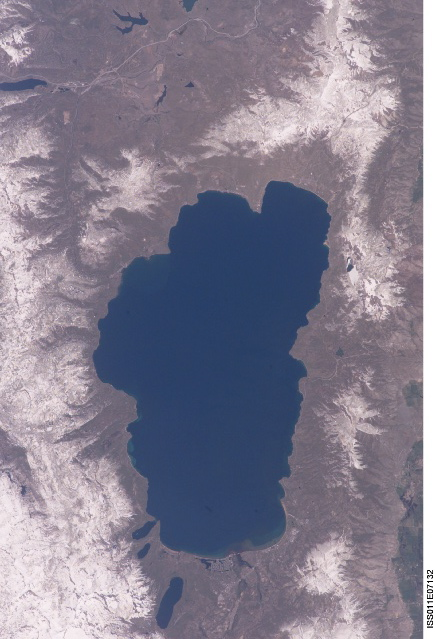 Source: [1] Image courtesy of the Image Analysis Laboratory, NASA Johnson Space Center. Mission: ISS011 Roll: E Frame: 7132 Mission ID on the Film or image: ISS011 Country or Geographic Name: USA-CALIFORNIA Features: LAKE TAHOE, TAHOE VALLEY, SNOW Center Point Latitude: 39.0 Center Point Longitude: -120.0 (Negative numbers indicate south for latitude and west for longitude)